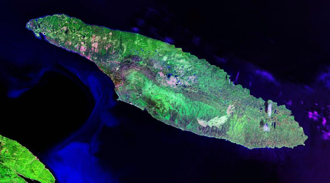 Anticosti Island image by Landsat.